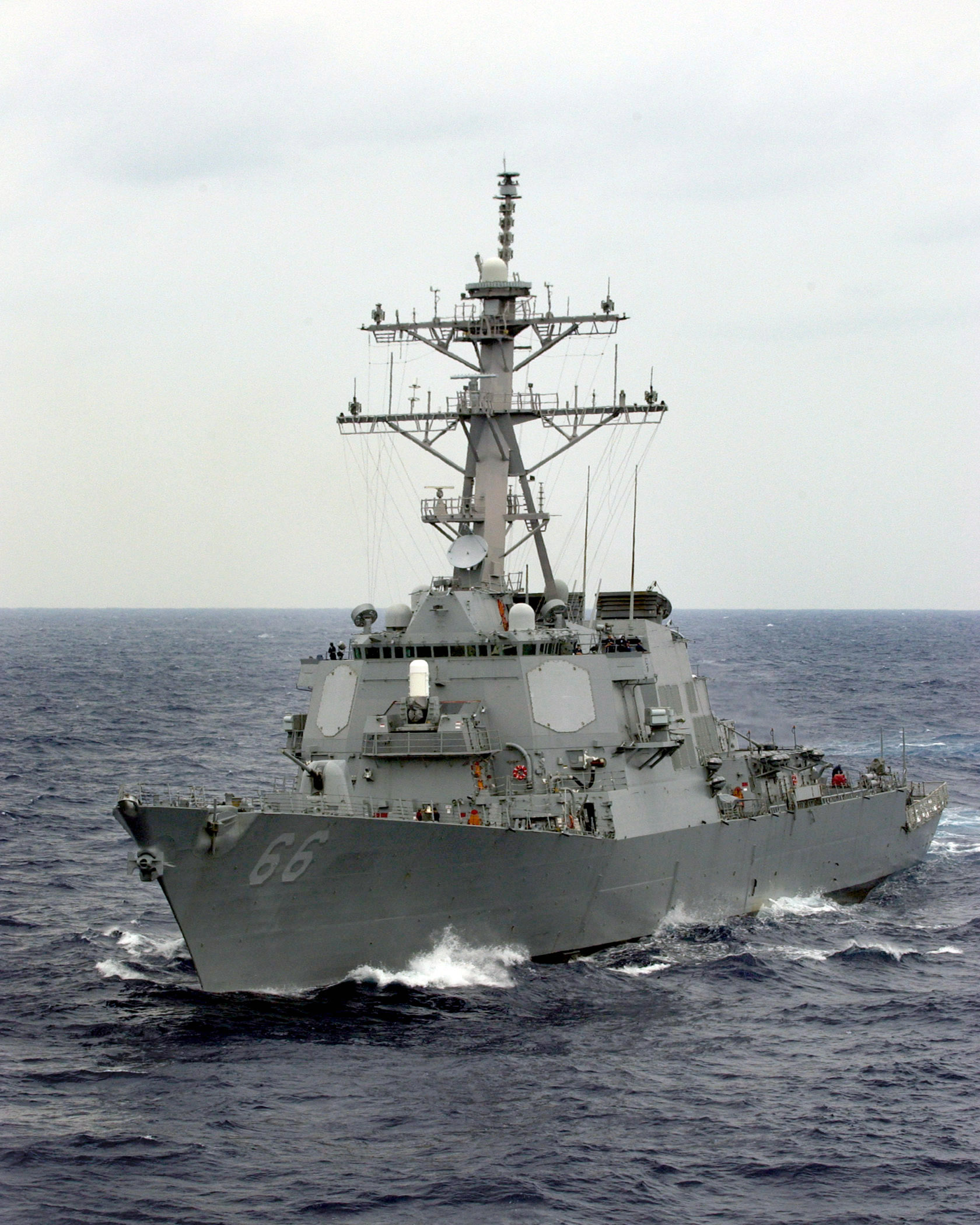 Atlantic Ocean (Sept. 6, 2003) — The guided missile destroyer USS Gonzalez (DDG-66) underway in the Atlantic Ocean during a work-up exercise before the ship’s scheduled deployment. Gonzalez is assigned to the USS Enterprise (CVN-65) Carrier Strike Group, commanded by Rear Adm. James Stavridis.